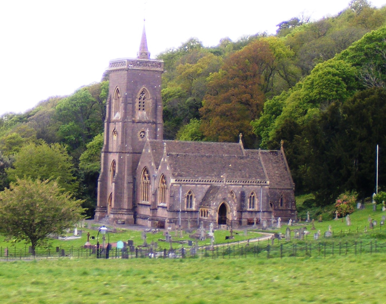 St Audries' parish church, West Quantoxhead, Somerset, seen from the south